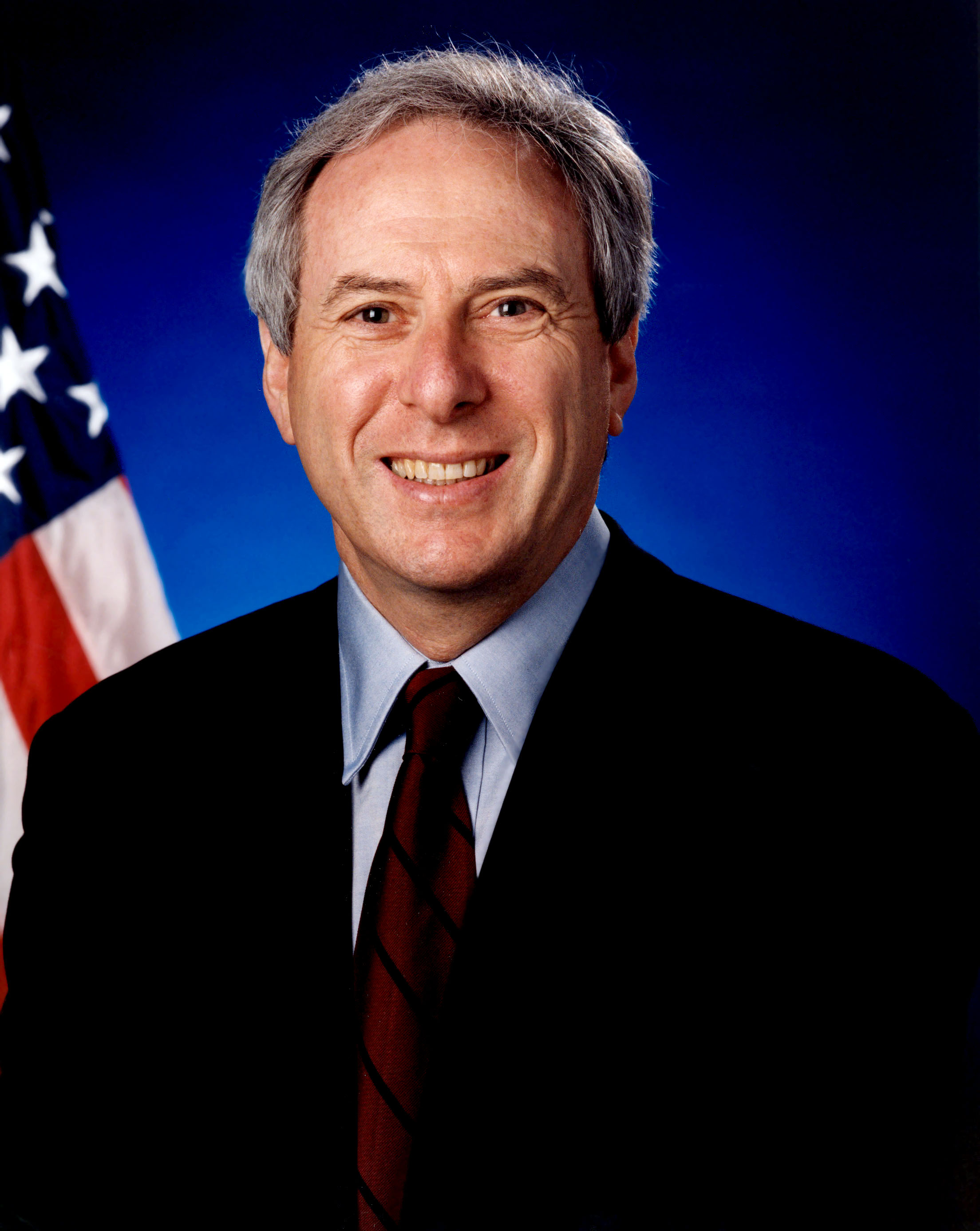 Daniel S. Goldin was NASA longest tenured administrator, serving from April 1, 1992, to November 17, 2001. Mr. Goldin became well known for his "faster, better, cheaper" approach to cut NASA costs while still delivering a wide variety of aerospace programs. During his administration, Mr. Goldin supervised projects such as the Mars Pathfinder, Hubble Space Telescope Servicing missions, and the International Space Station.